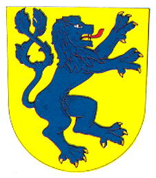 Stařeč CoA CZ